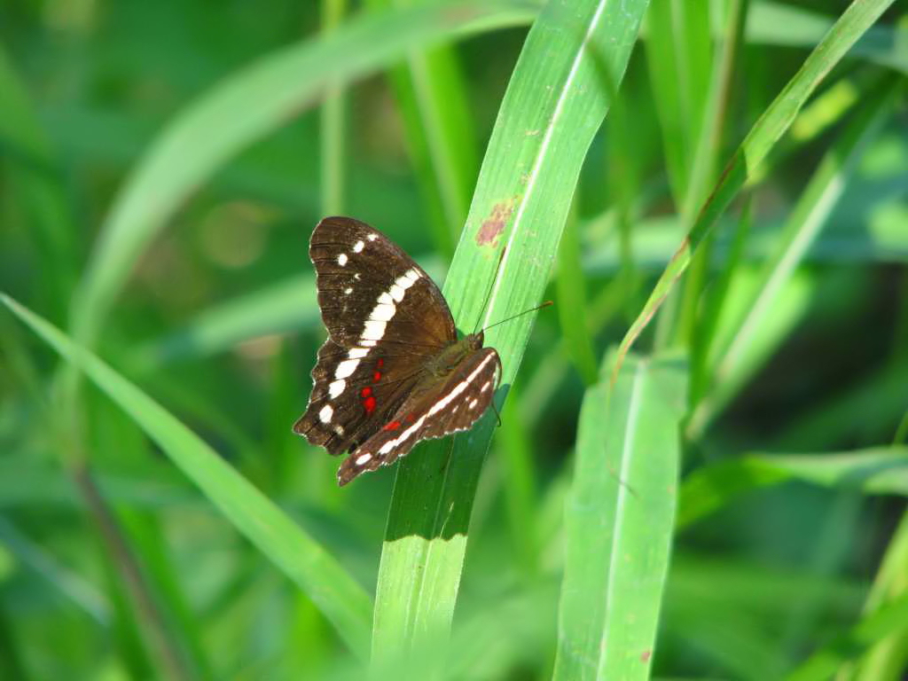 Banded Peacock (Anartia fatima) taken in Manuel Antonio Park, Manuel Antonio, Costa Rica